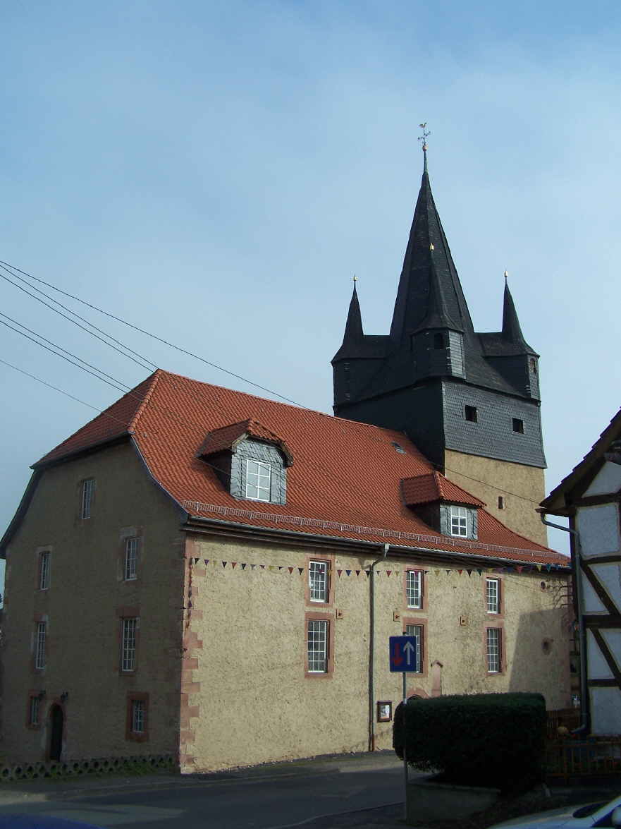 The church in Berka/Werra.